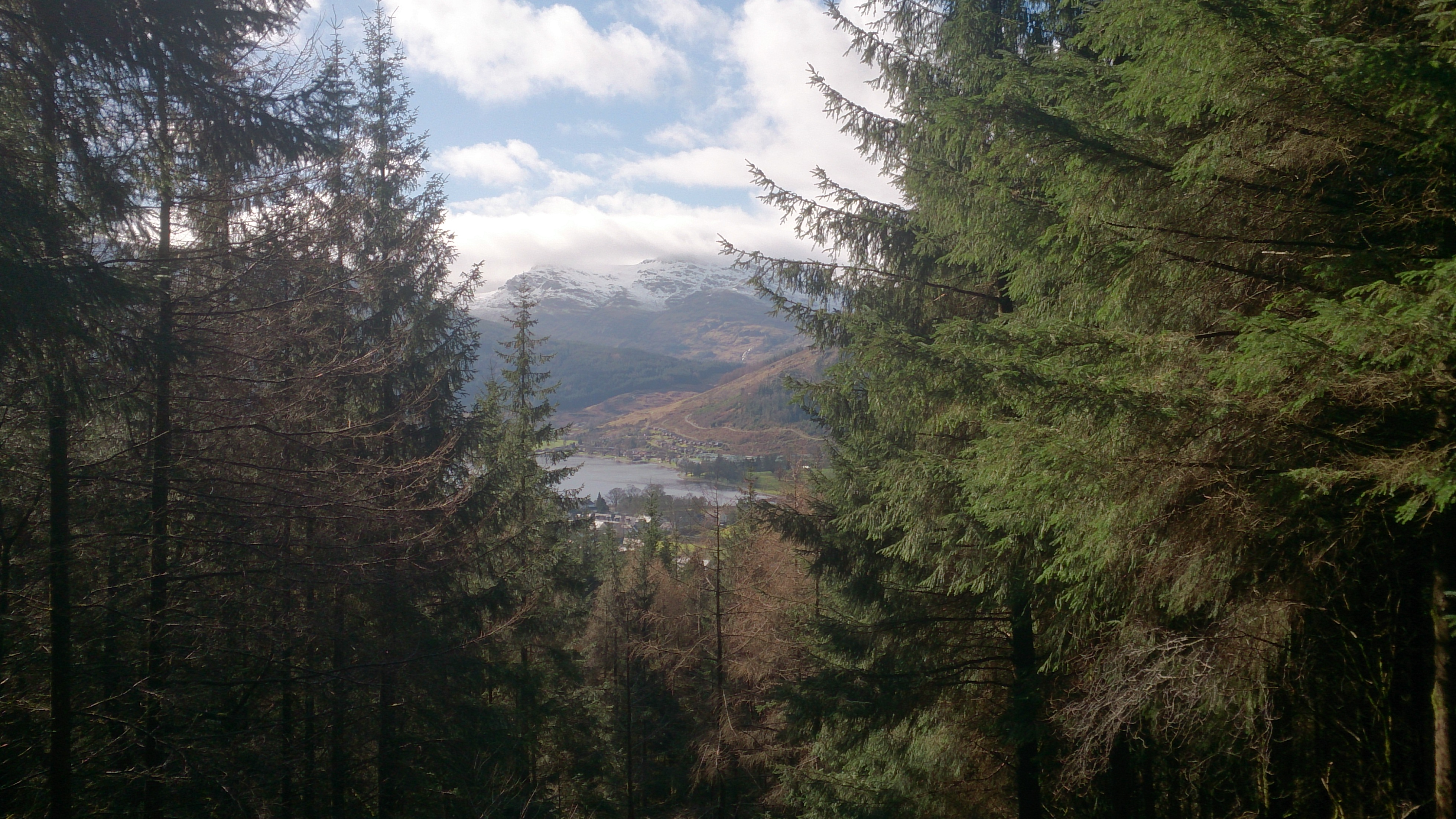 Distant view of Lochgoilhead from the Donich Circular walk.